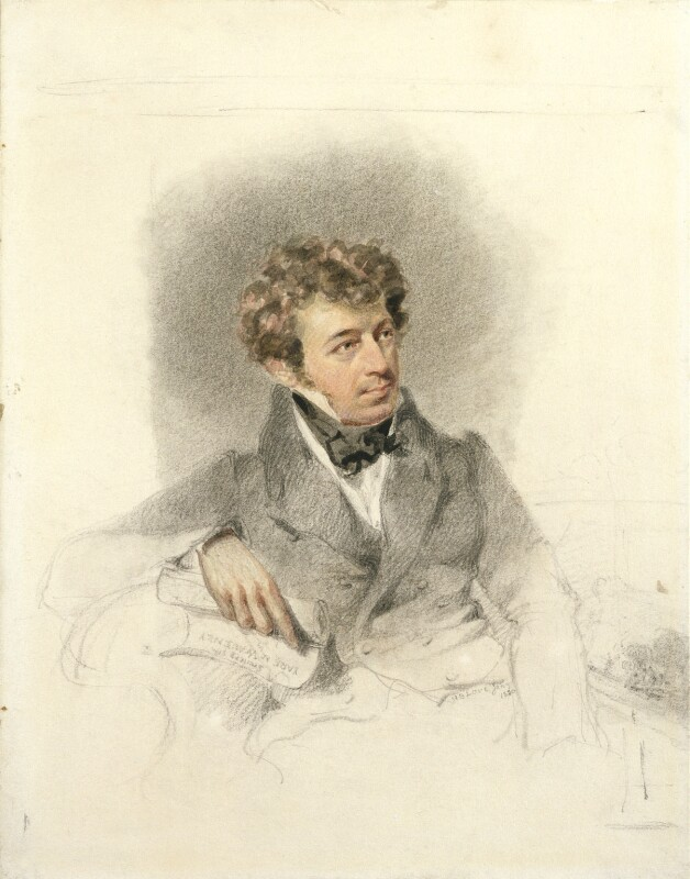 A portrait of the artist James Stark, a leading member of the Norwich School of Painters. Inscribed in pencil at the top of the rolled sheet of paper which Stark is holding, 'Scenery of the/Yare & Waveney' (both rivers in Norfolk). This is presumably a reference to the Scenery of the Rivers of Norfolk, engraved from Stark's pictures by Edward Goodall, William Miller and others, with a text by J. W. Robberds (1827-34). Love's portrait of Stark's friend J. C. Cotman is also in the NPG.